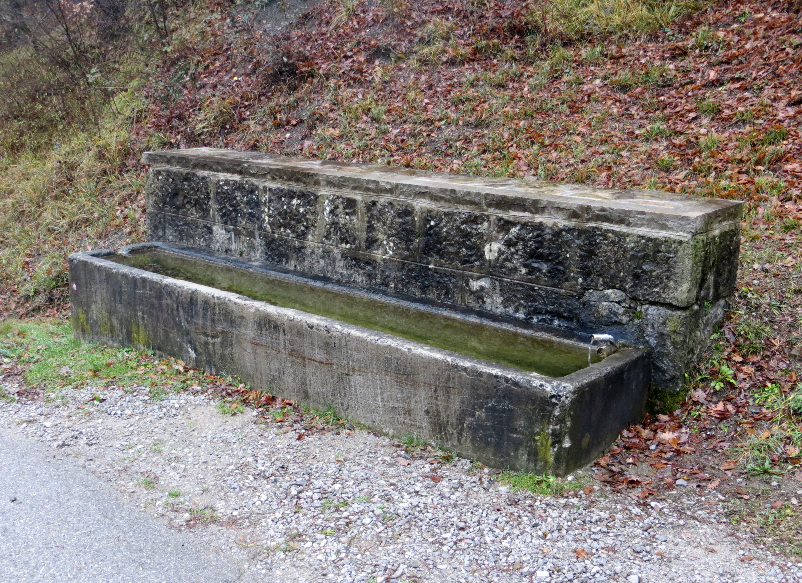 Water trough at boundary between Šmarje and Vrtovče, Municipality of Ajdovščina, Slovenia